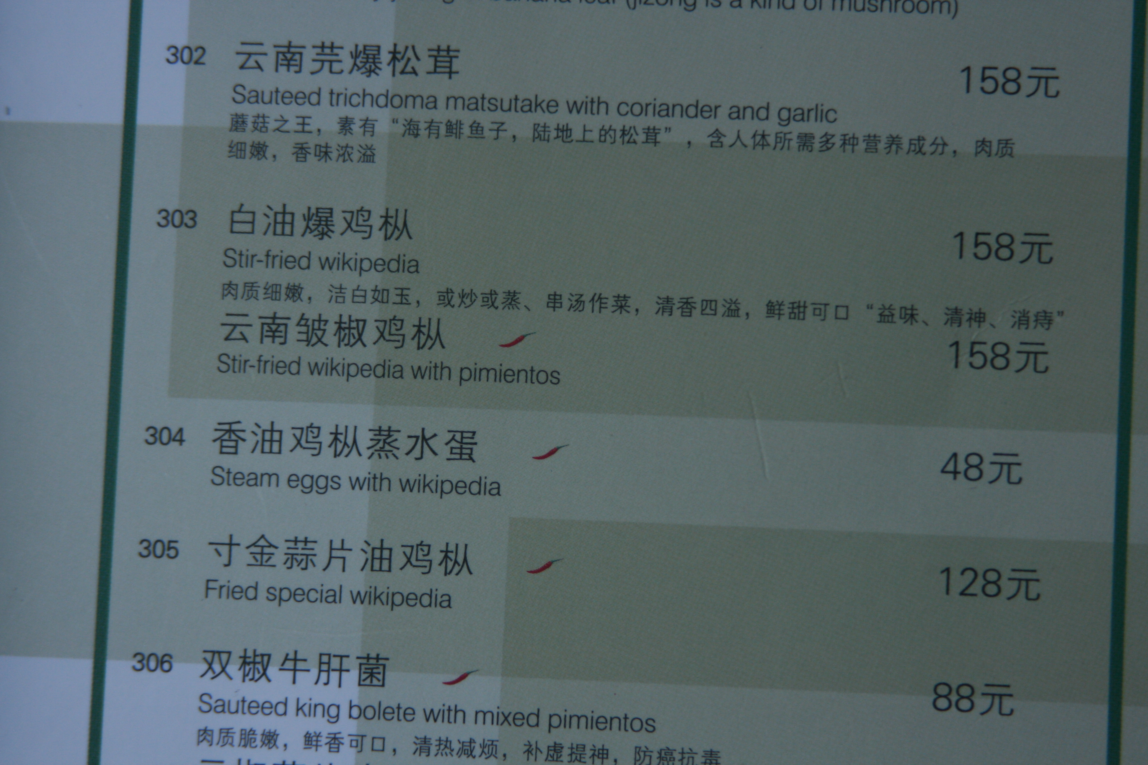 Restaurant menu, Beijing, China2-14-08 016